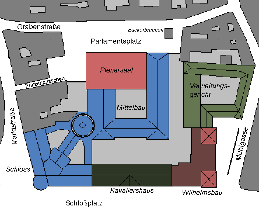 Plan of the complex of buildings of the Hessian Landtag and Stadtschloss, Wiesbaden in Wiesbaden, Germany